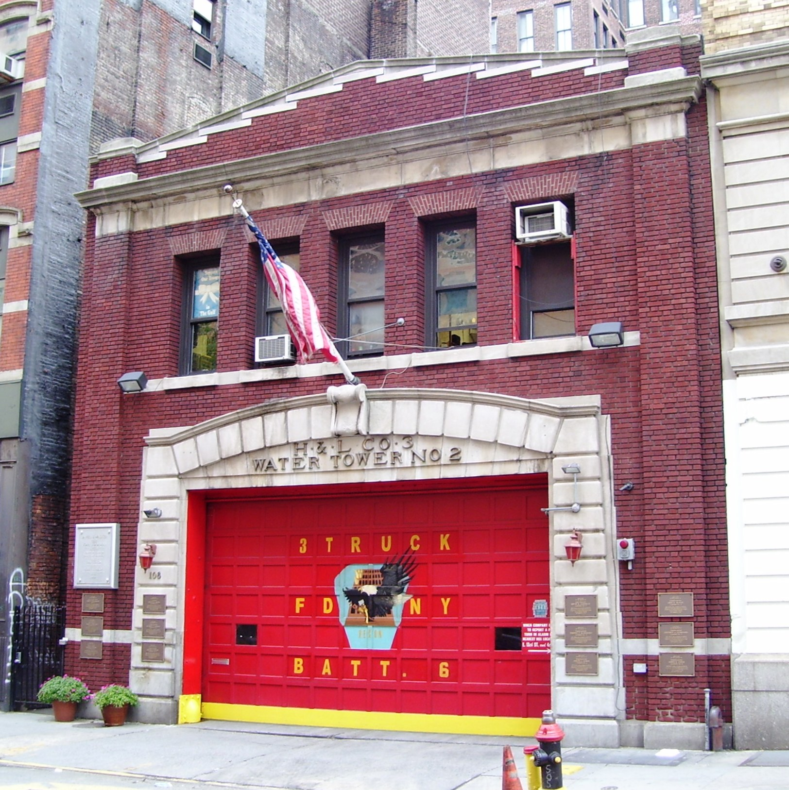 Firehouse at 108 East 13th Street, between 3rd and 4th Avenues, in the East Village, Manhattan, New York City. Built in 1929.